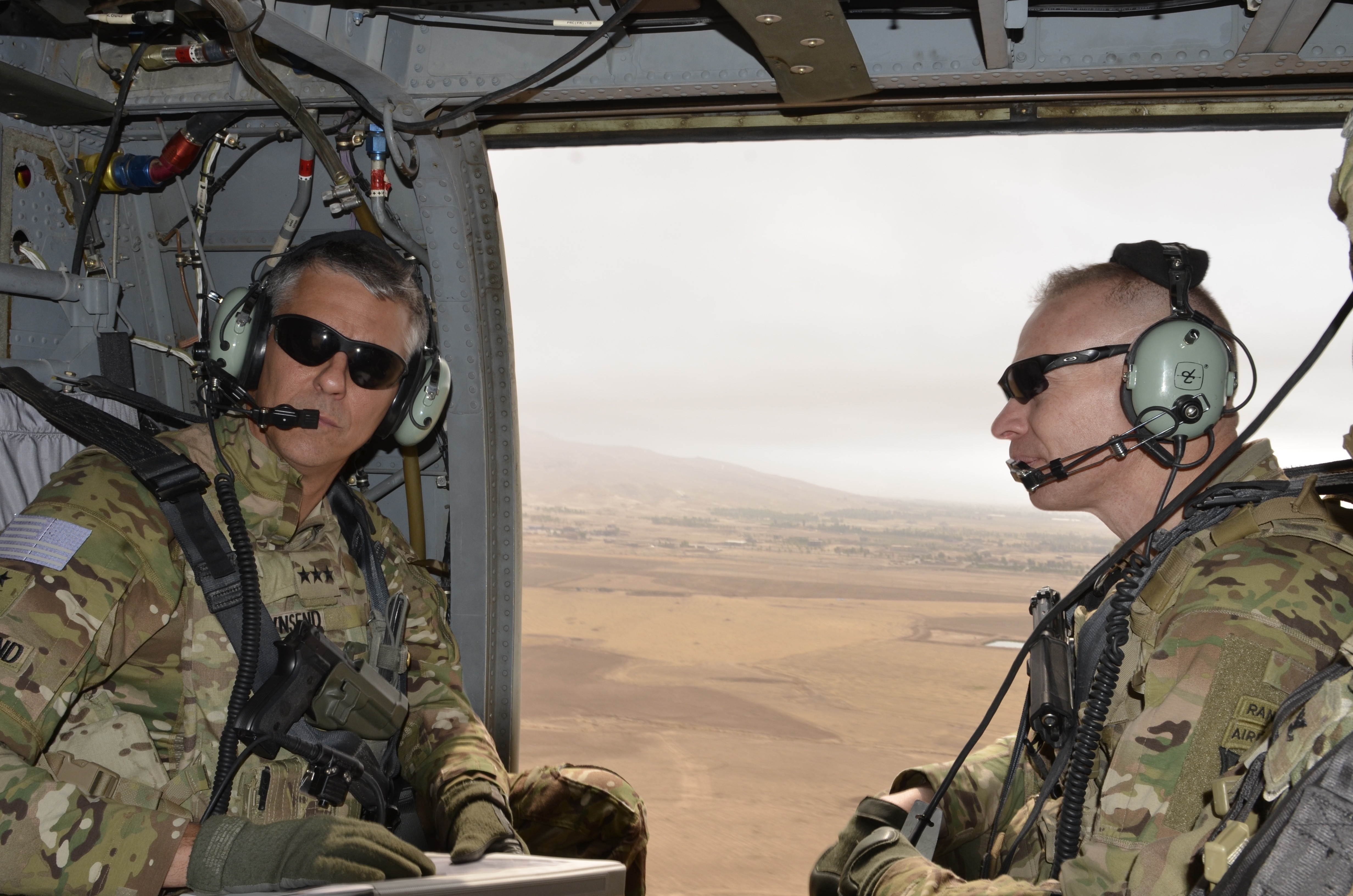 Lt. Gen. Stephen J. Townsend, commander Combined Joint Task Force Operation Inherent Resolve and Col. Brett G. Sylvia, commander, 2nd Brigade Combat Team, 101st Airborne Division, travel to visit troops with Task Force Strike, 101st Airborne Division, Qayyarah West Airfield, Iraq. Coalition troops arrived to Qayyarah West Airfield to enable the Iraqi Security Forces to defeat Da'esh by providing logistical, engineering and artillery fires in support of the liberation of Mosul. The mission of Operation Inherent Resolve is to defeat Da’esh (an Arabic acronym for ISIL) in Iraq and Syria by supporting the Government of Iraq with trainers, advisors and fire support, to include aerial strikes and artillery fire. (USMC photo by Capt. Ryan E. Alvis/Released)